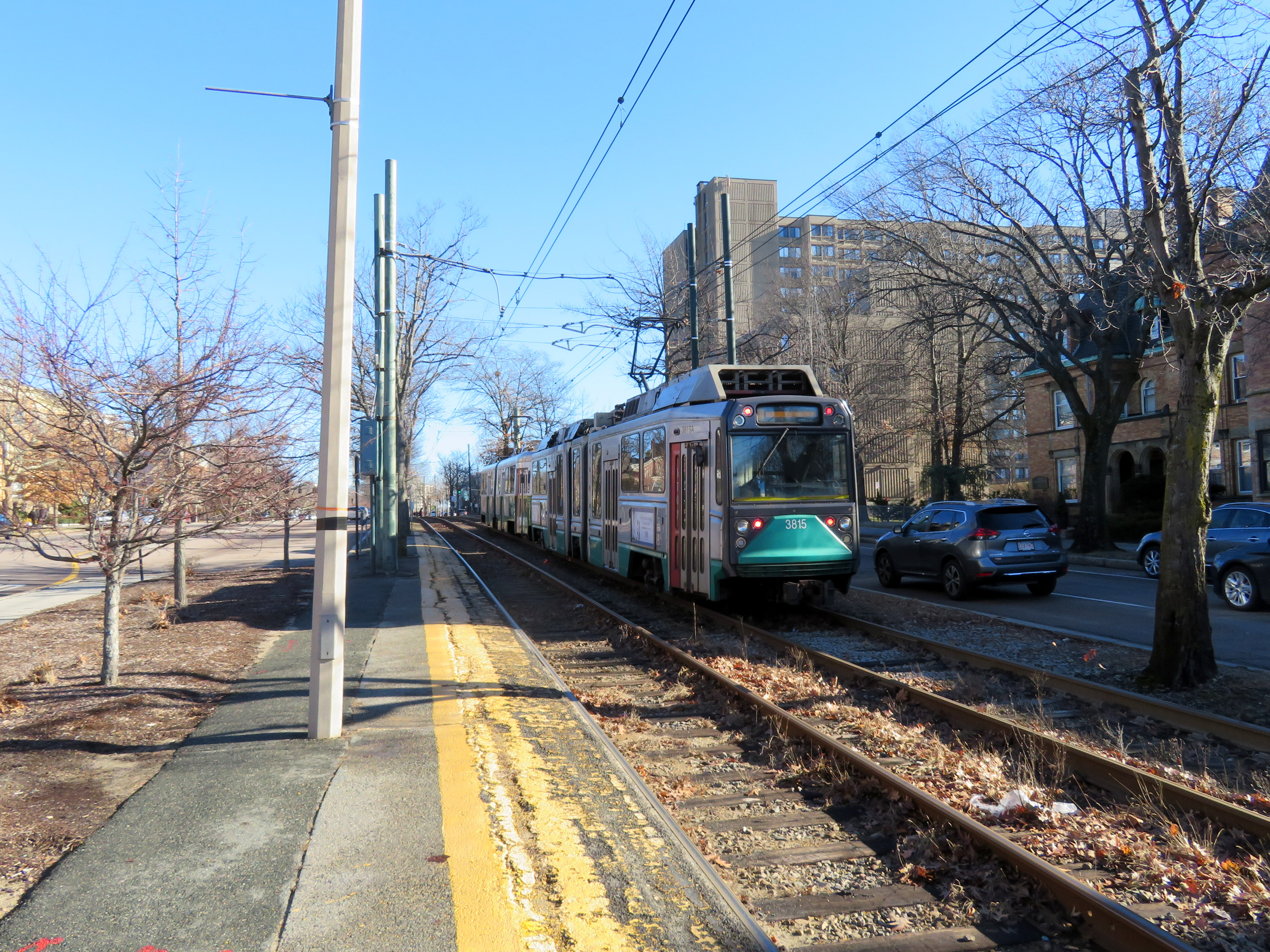 An inbound train passing the outbound platform at Dean Road station in December 2018